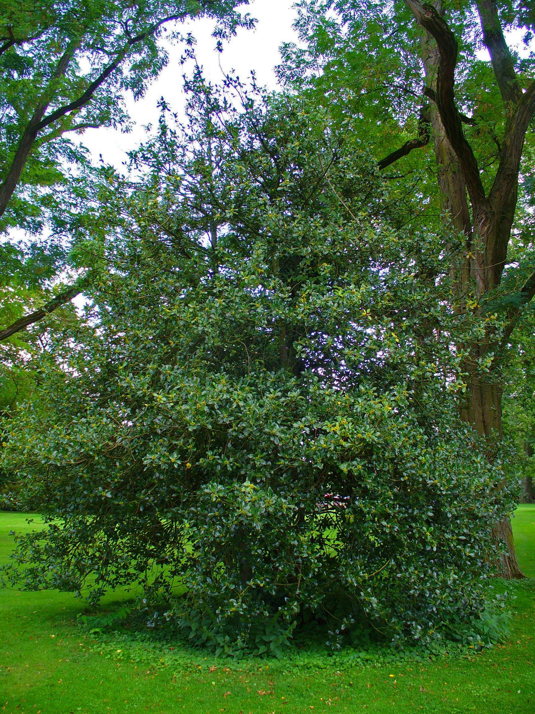 Ilex aquifolium, Aquifoliaceae, European Holly, habitus; Stadtgarten Karlsruhe, Germany. The fresh leaves are used in homeopathy as remedy: Ilex aquifolium (Ilx-a.)